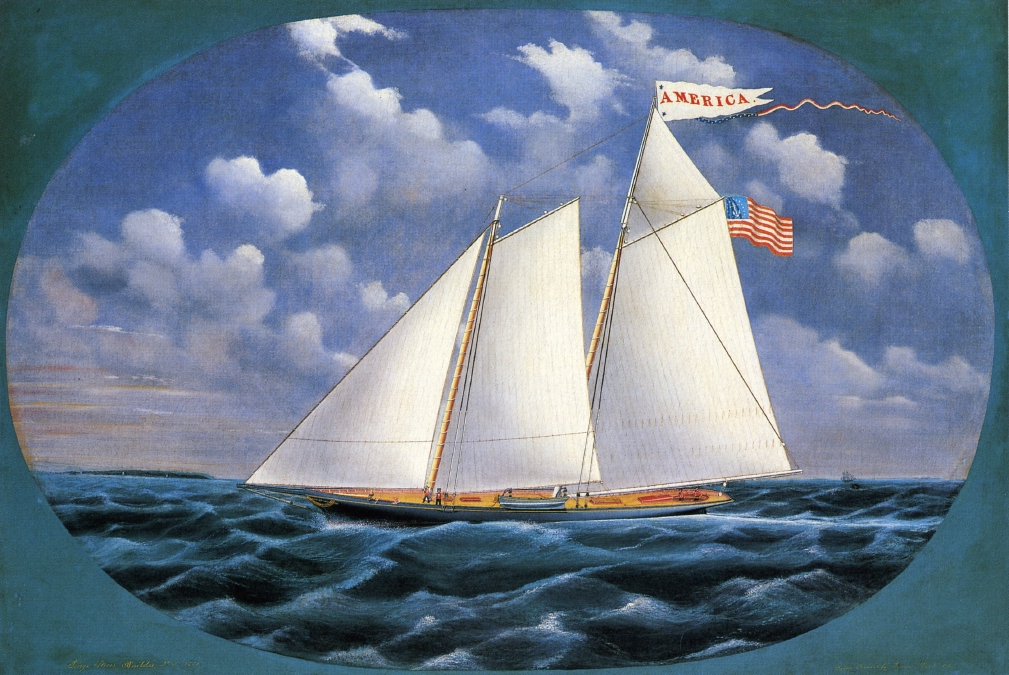 America, schooner yacht, oil on canvas by James Bard.